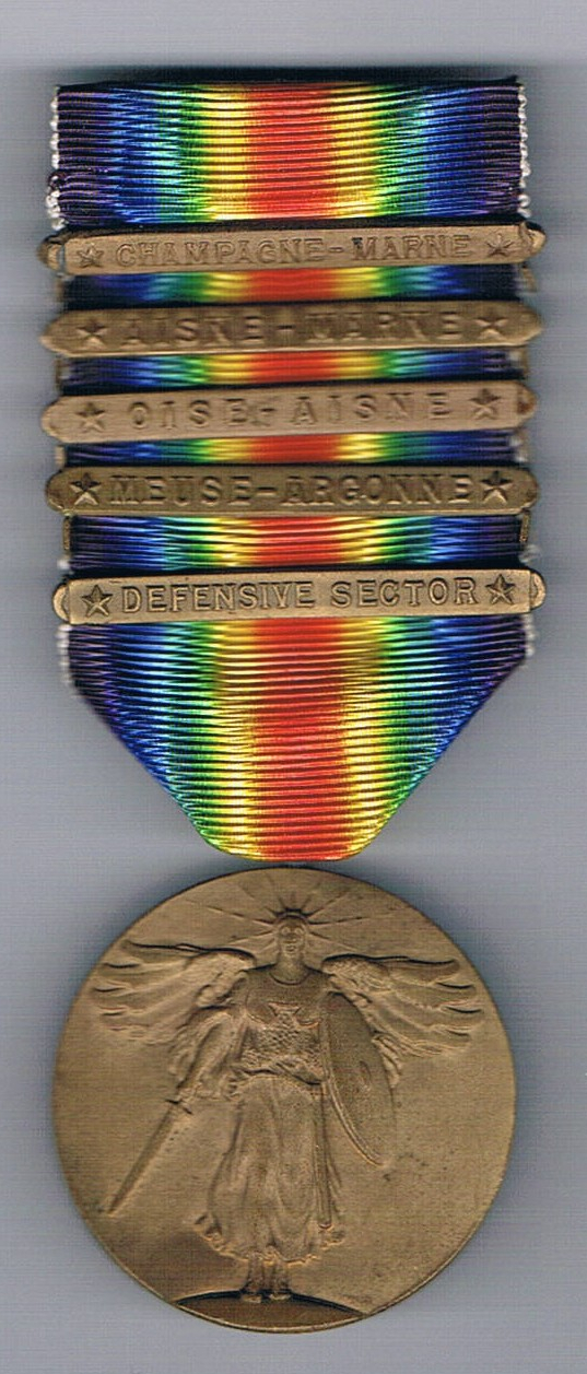 WW I US Army Victory Medal, Front View, Battle Clasps from top to bottom: Champagne - Marne, Aisne - Marne, Oise - Aisne, Meuse - Argonne, Defensive Sector. Awarded April 1921